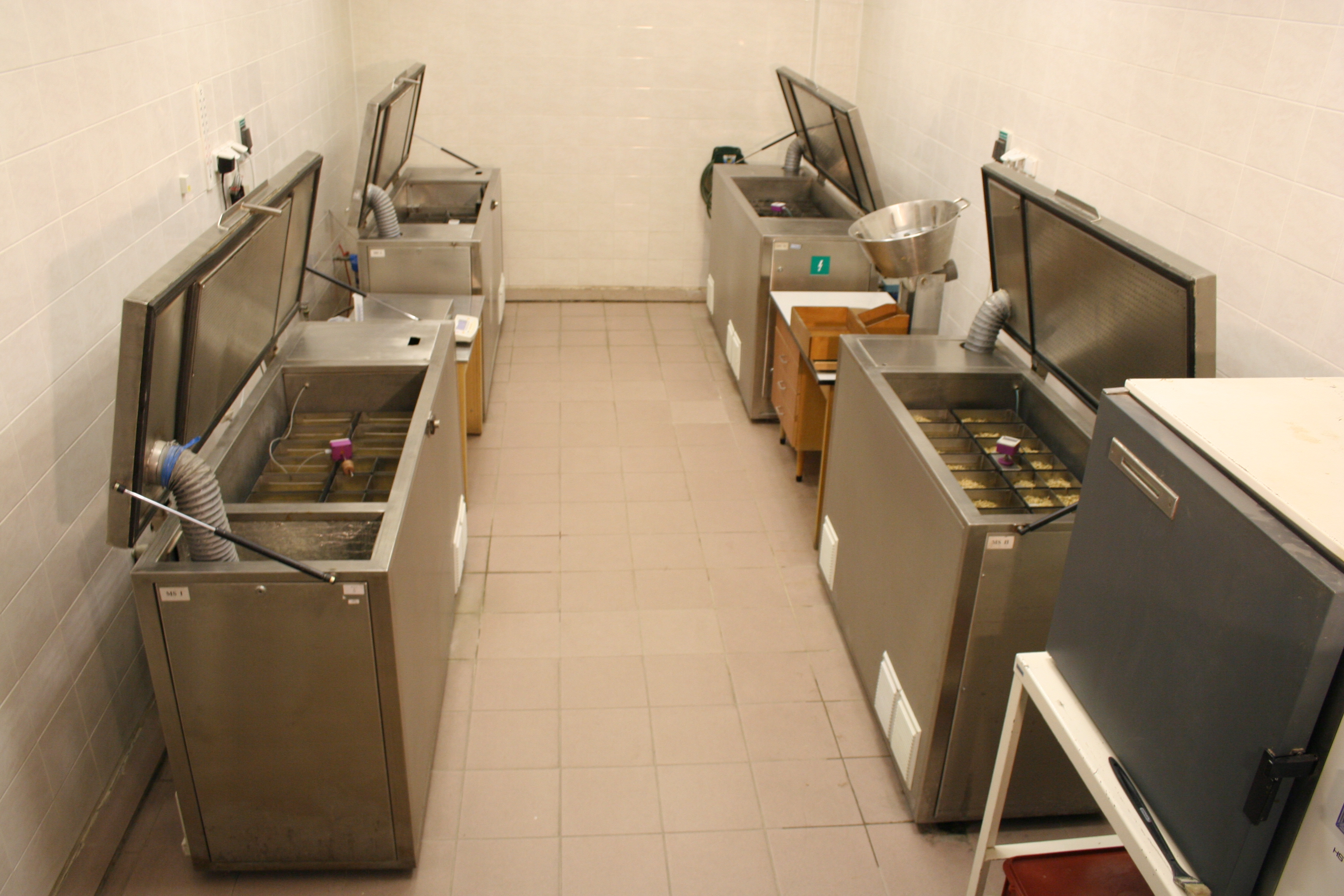 Laboratory malt-house.